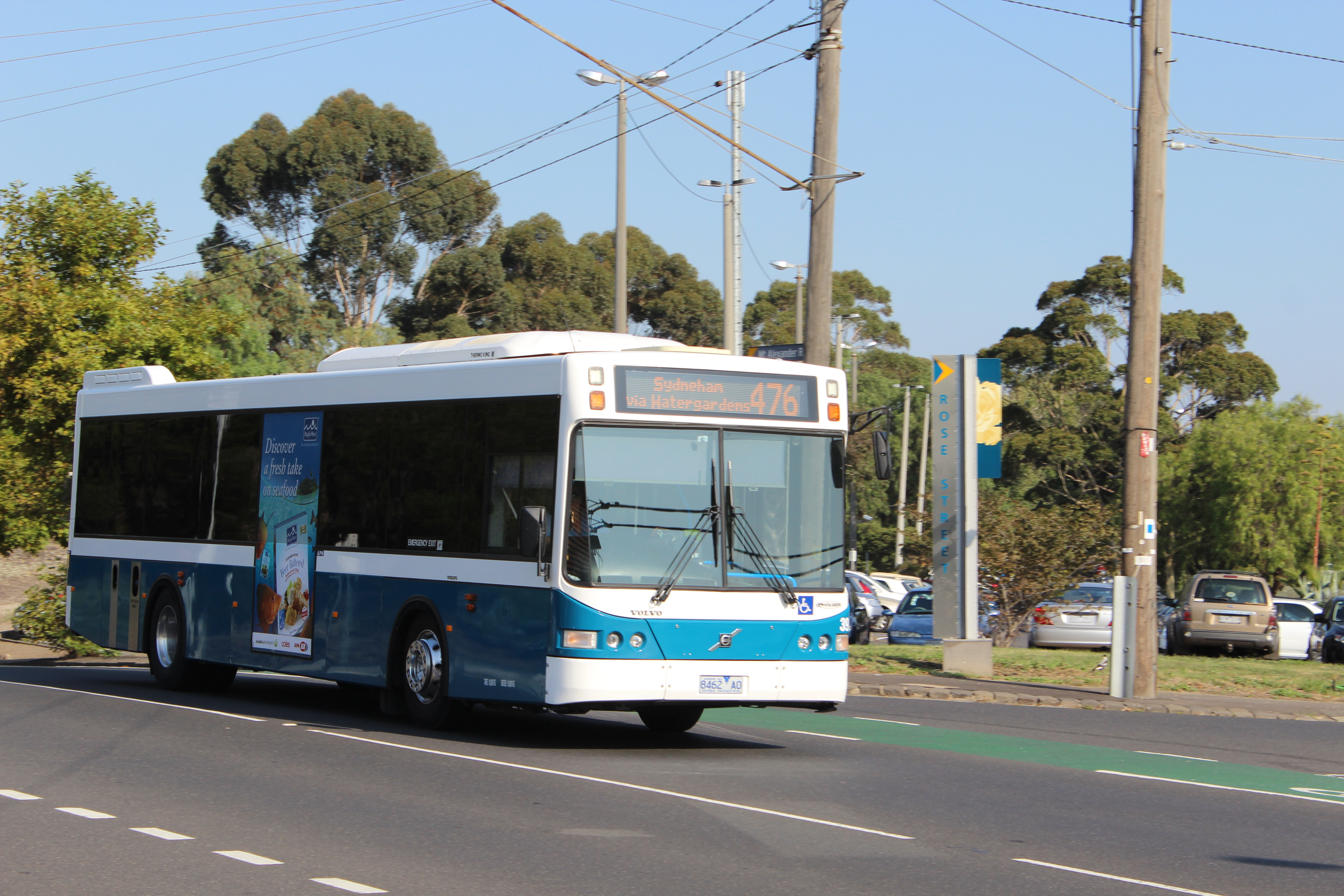 Kastoria bus on Mount Alexander Road on route 476, 2013